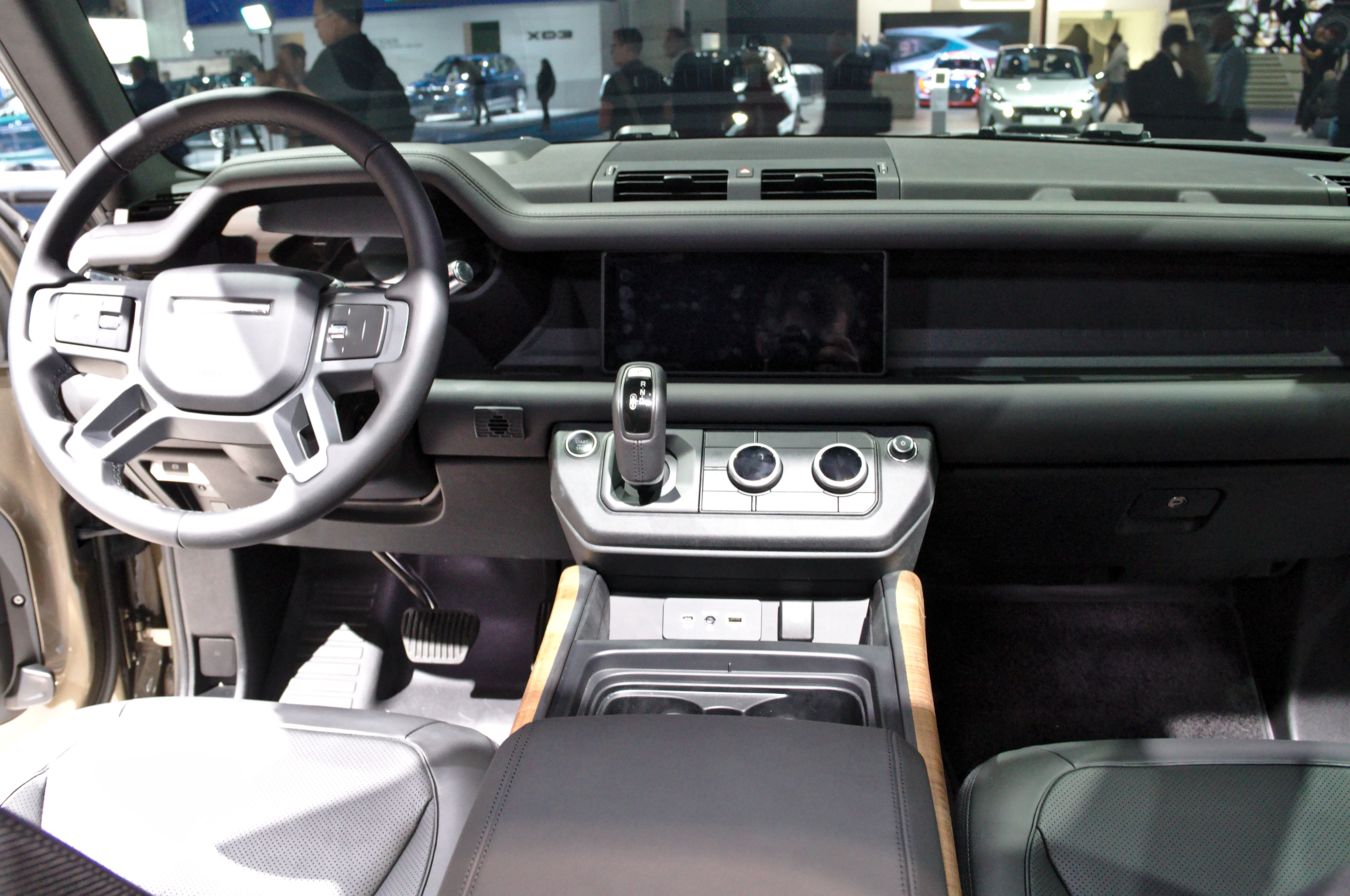 Land_Rover_Defender at IAA 2019